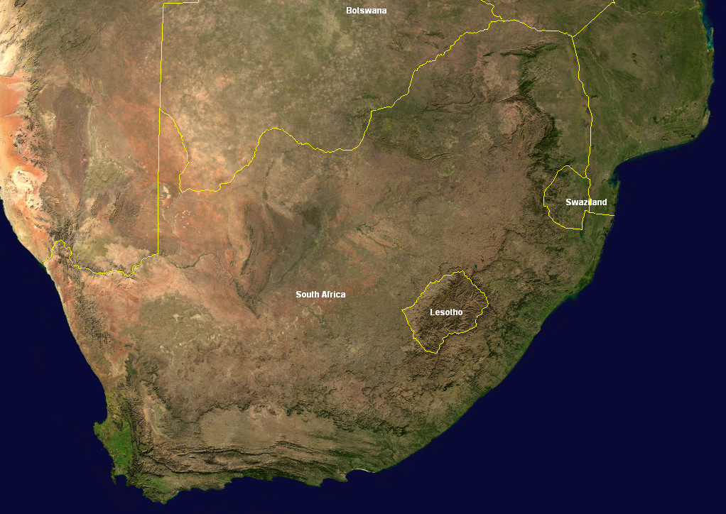 World Wind screenshot of South Africa with country boarders of Eswatini and Lesotho names in.